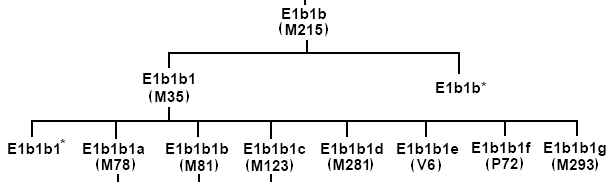 The phylogeny of E1b1b illustrated from phylogeny as described by Lancaster et al 2008. Figure 4 (Textual-heirarchal description)